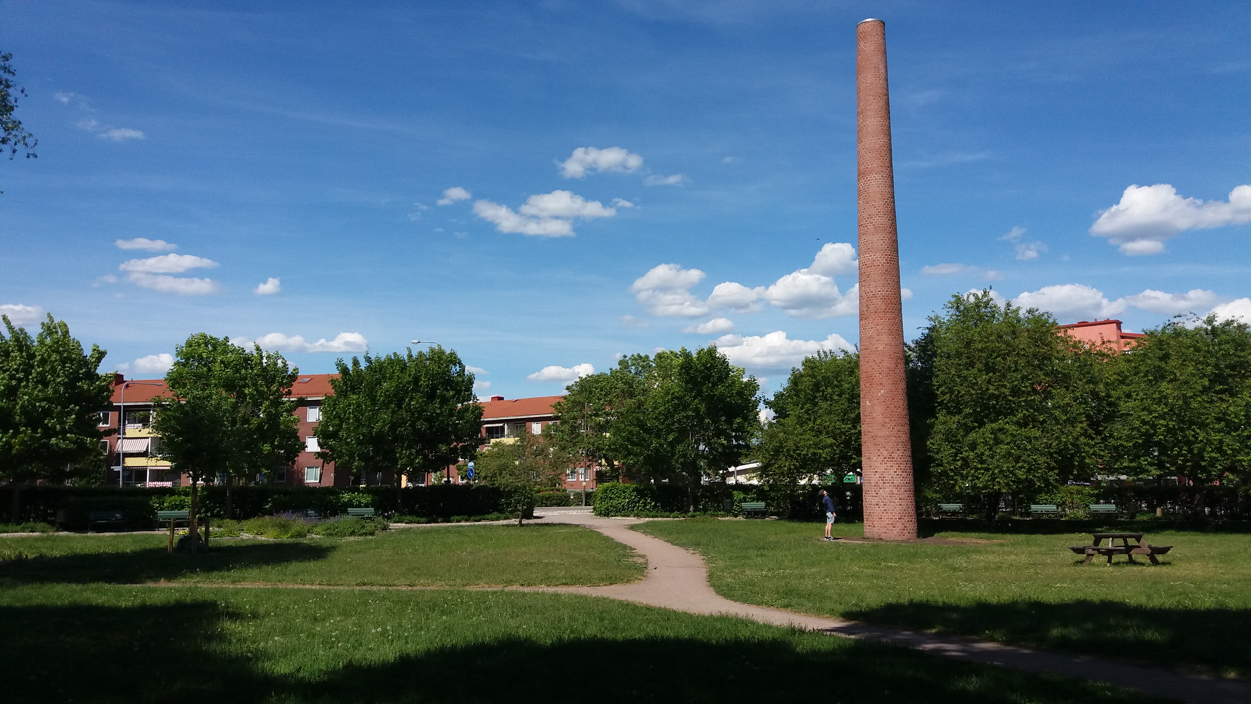 Tegnérparken in Luthagen, Uppsala